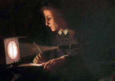 The first observed Transit of the Planet Venus predicted & observed by Jeremiah Horrocks, 24th November 1639. Portrait held in the collection of Astley Hall Museum and Art Gallery Chorley and the property of Chorley Council.